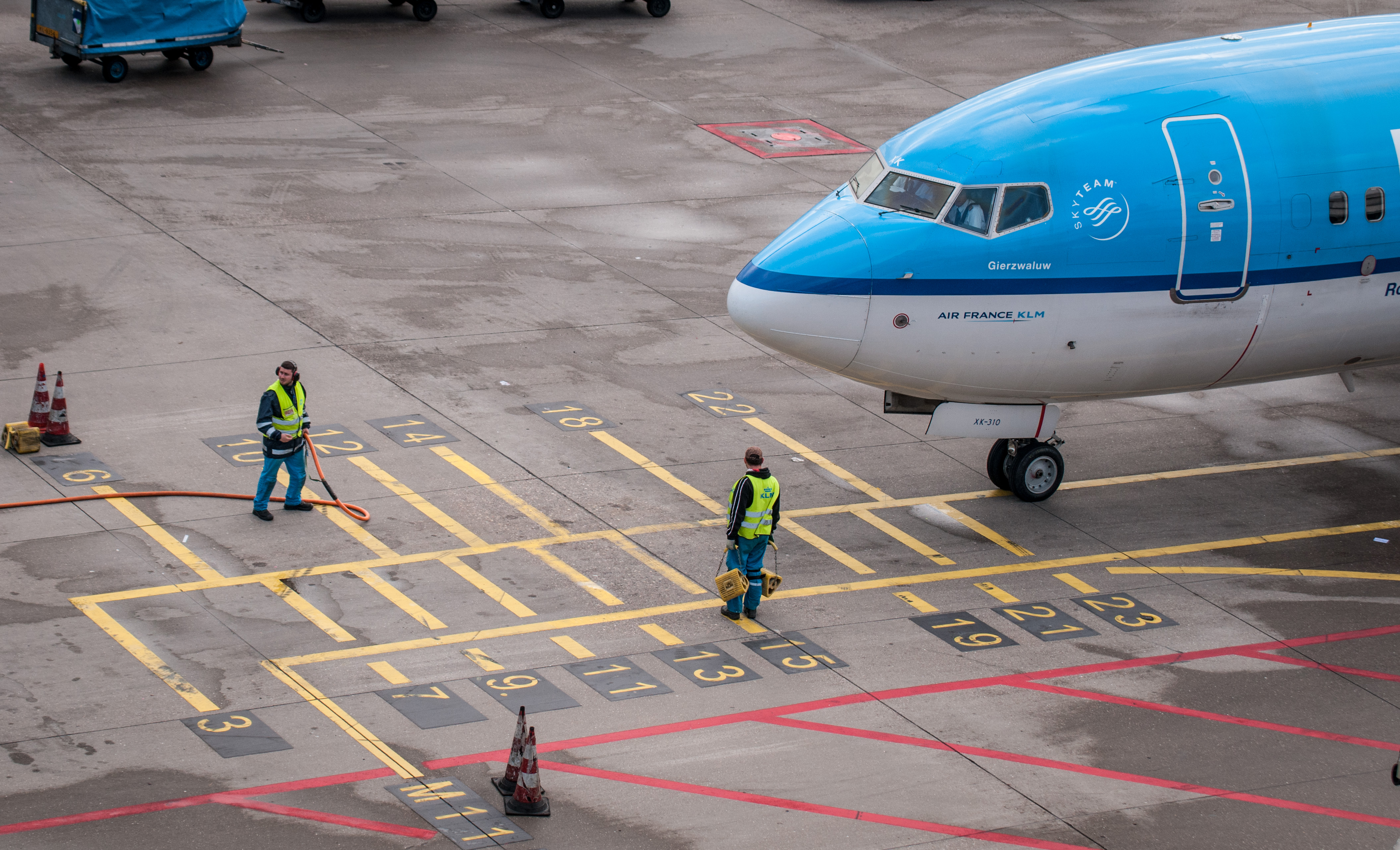 Amsterdam Airport Schiphol, Nikon D300 with Tamron SP70-300 F/4-5.6 Di VC USD